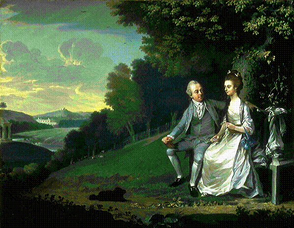 "Sir Francis and Lady Dashwood at West Wycombe Park". Painted in 1776 by Dance the lady portrayed is likely to be not Lady Dashwood who died in 1769, but Frances Barry, Dashwood's mistress with whom he lived after the death of his wife. This work of art is 237 years old and thus in public domain by virtue of age